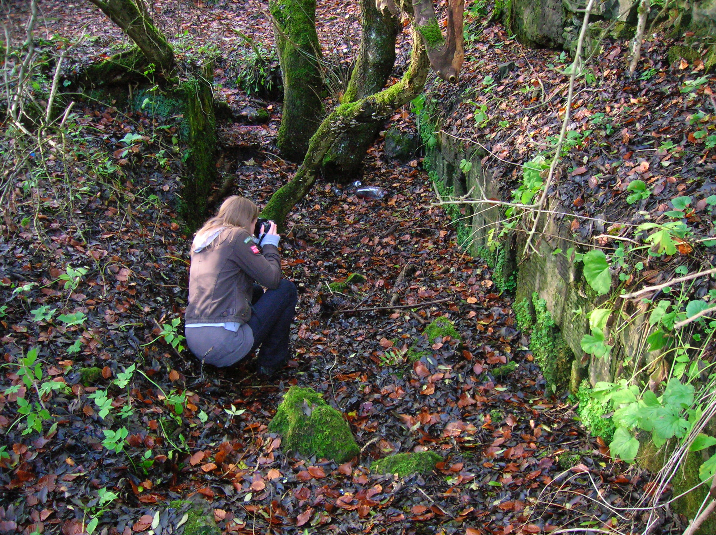 Old wheel pit, Orry cotton mill, Eaglesham, Scotland.